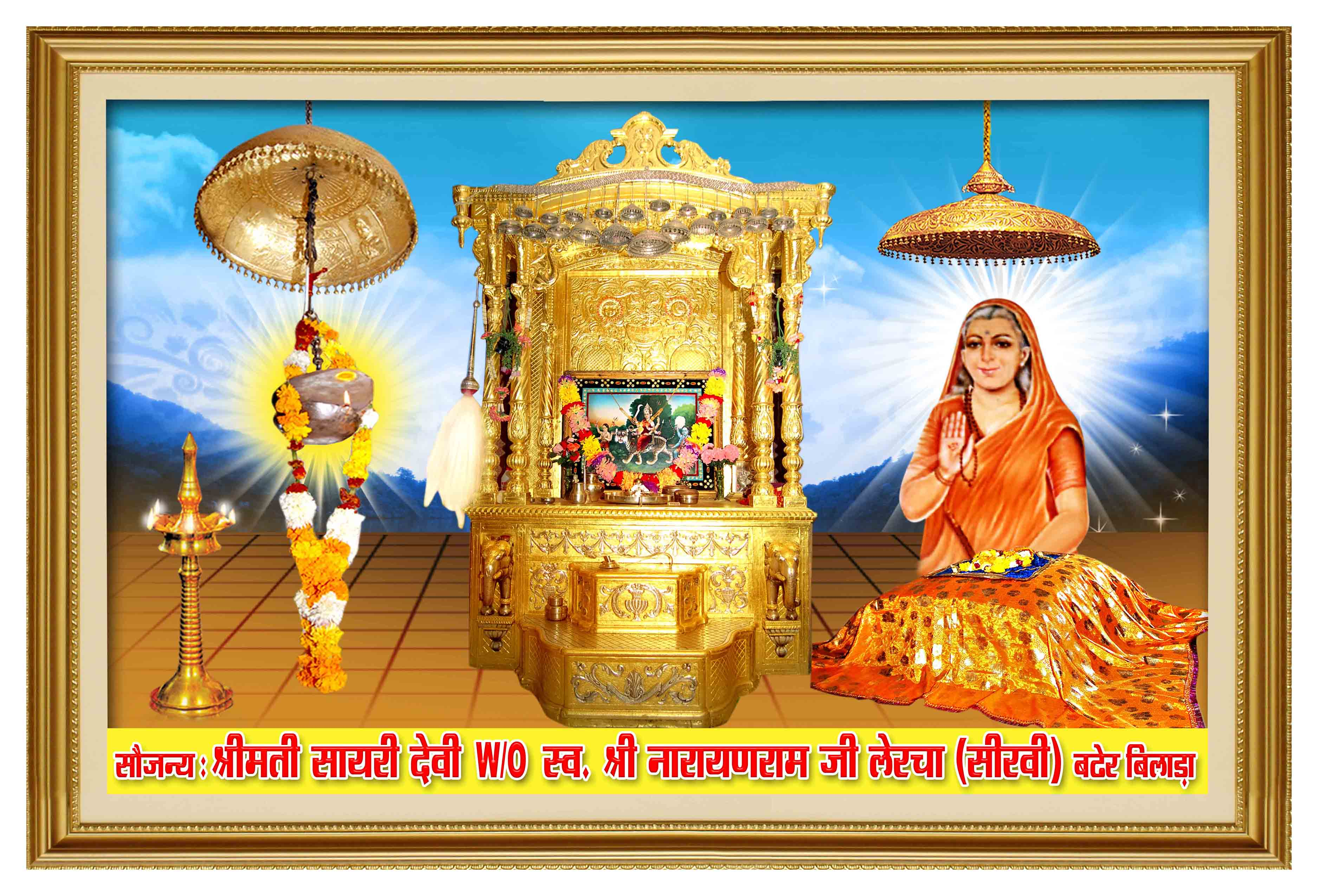 Shi aai Mata ji Temple Bilara , Dist jodhpur , Rajasthan India